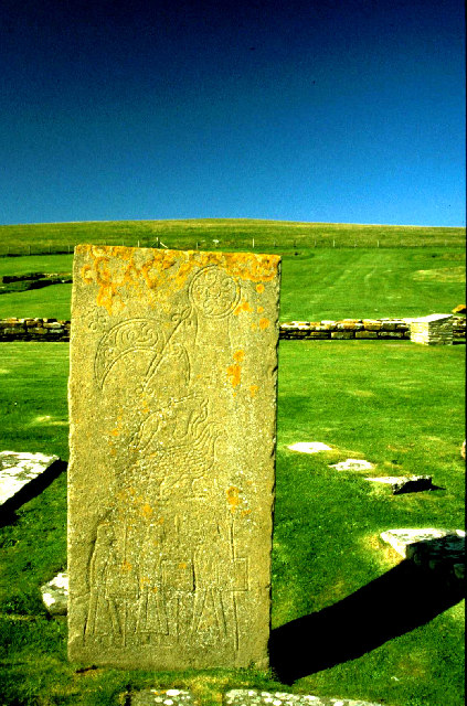 Pictish Symbol stone on The Brough of Birsay. Actually a copy, as the original is preserved in The Royal Scottish Museum in Edinburgh